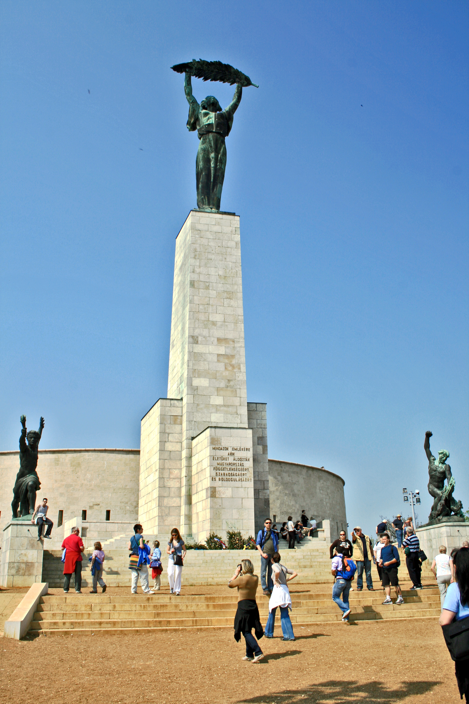 Statue of Freedom on Gellért Hill over Danube river, Budapest, Hungary